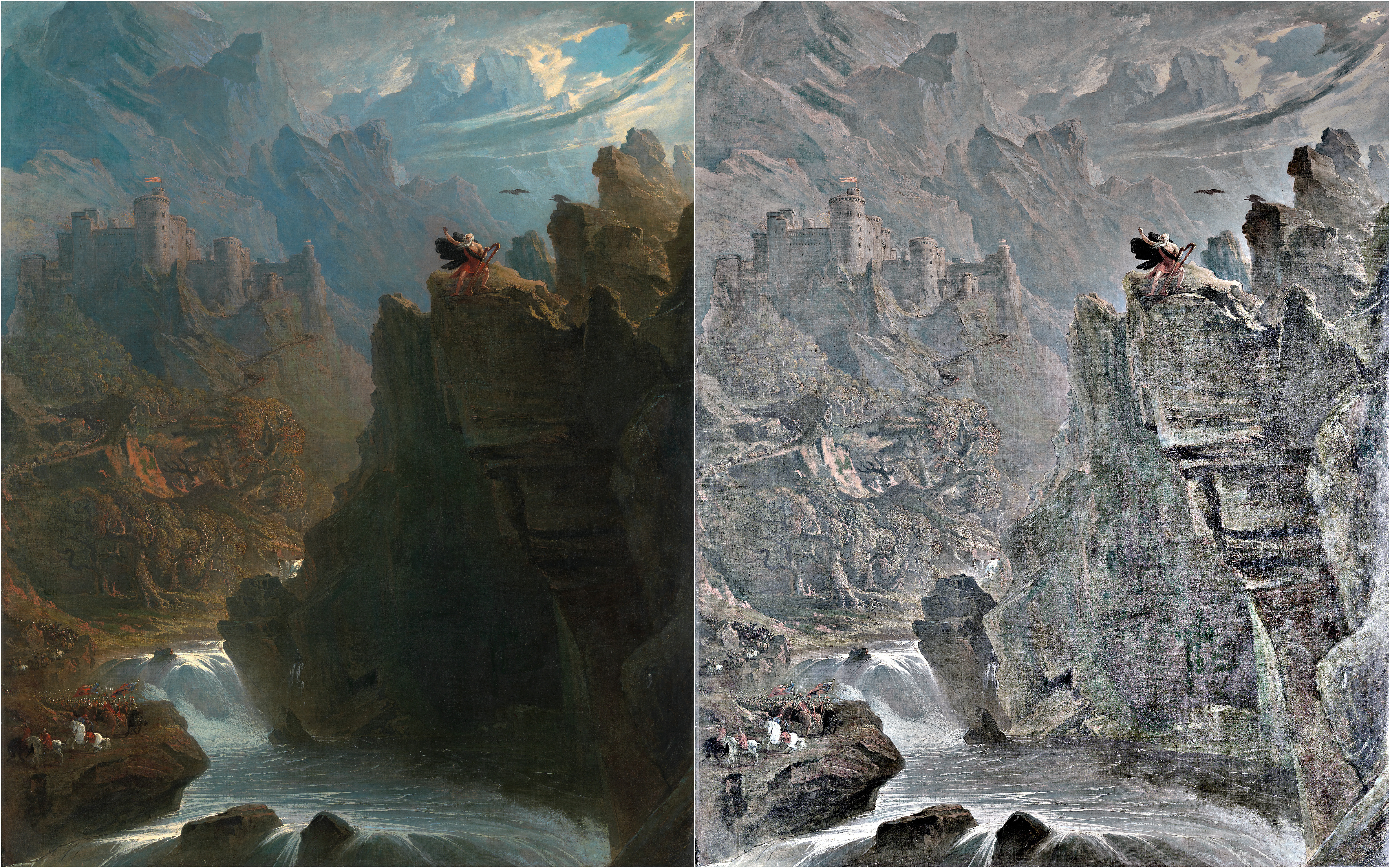 left: John Martin, "The Bard" (1817); right: modified using GIMP, 1st: slight desaturation, 2nd: retinex filtering: Scale=160, ScaleDivision=6, Dynamic=2.5